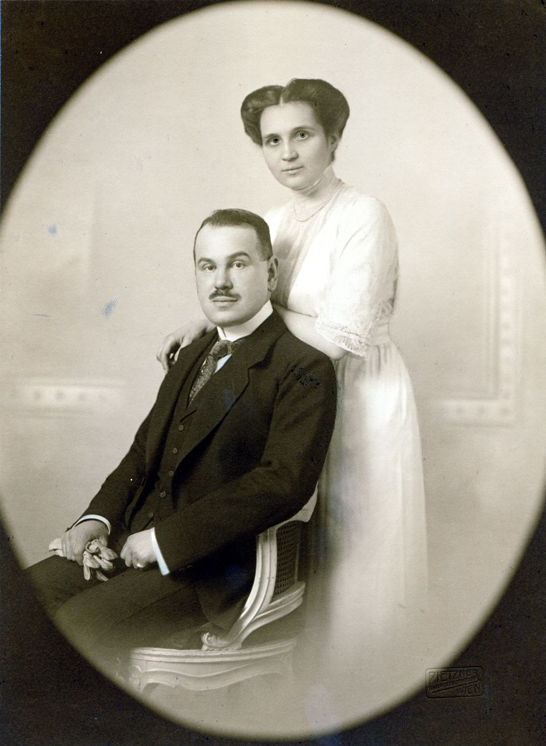 Otto Petschek's photos Marthou in good photos. The work dates from 1913, when it was opened.